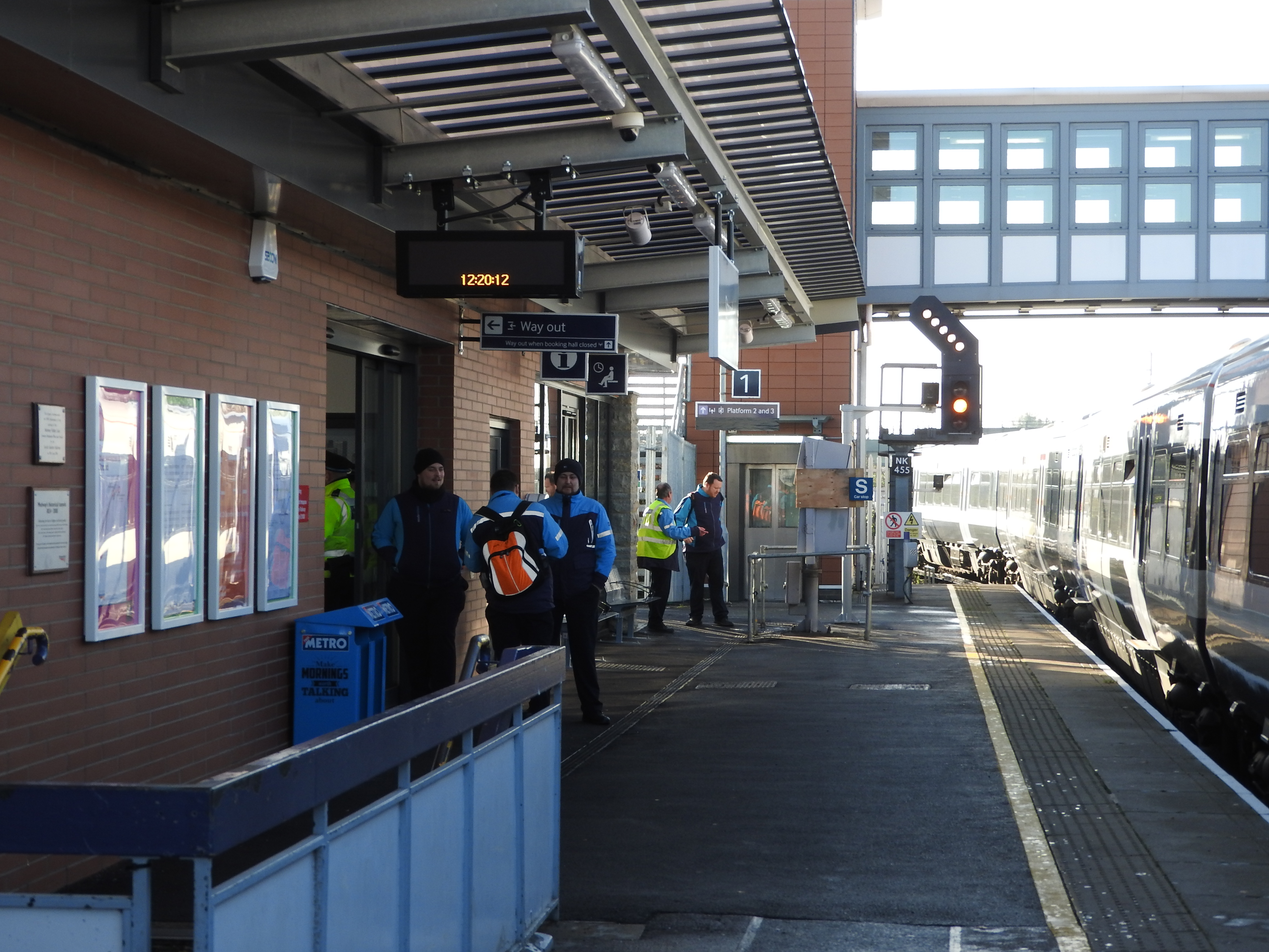 Strood railway station was refurbished, and then reopened on 11 December 2016.